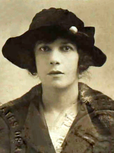 Vivienne Haigh-Wood Eliot U.S. passport photo